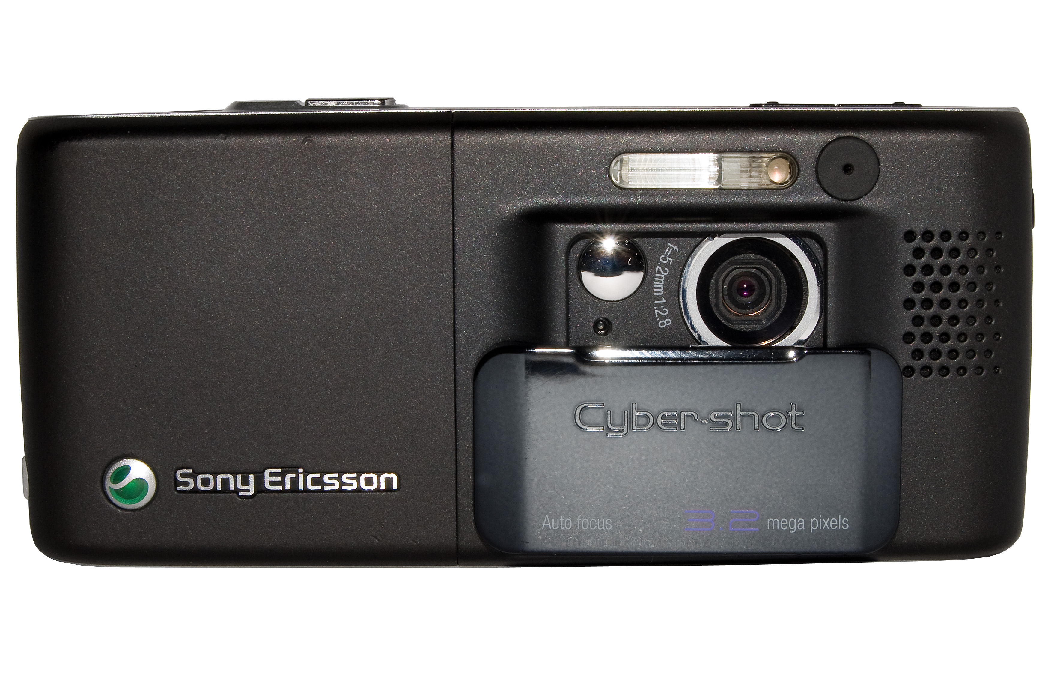 Image of the Sony Ericsson K800i with the camera open.